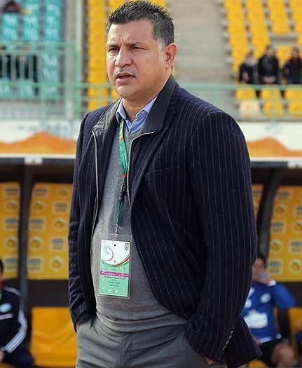 Ali Daei, Iranian football player.